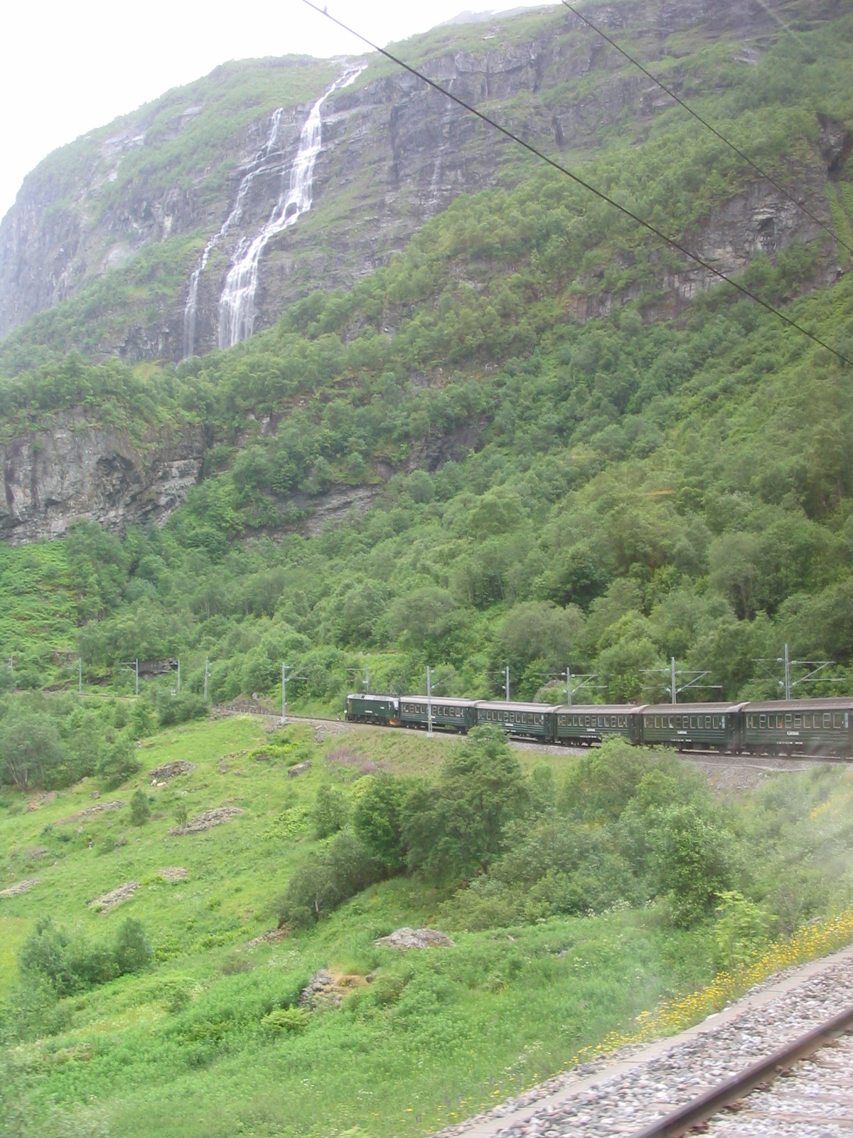 The Flåmsbana, Norway.